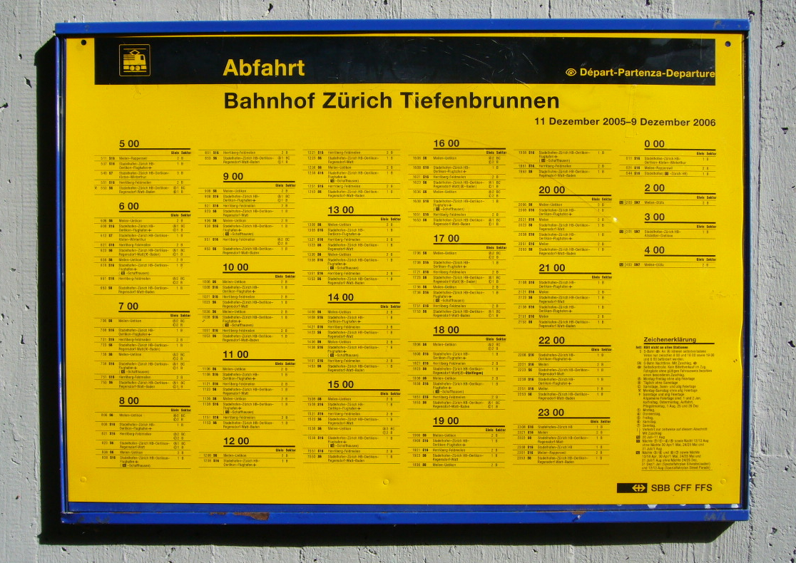 time table of Train station Tiefenbrunnen in Zurich, Switzerland. Picture taken by Peter Berger, October 7, 2006.